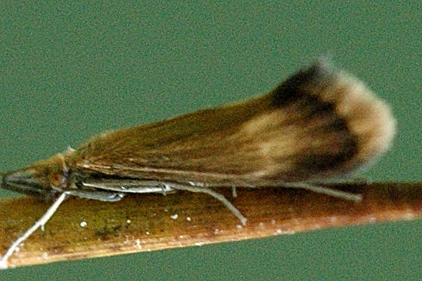 Picture taken in Commanster, Belgian High Ardennes . Species: Leptocerus interruptus wing detail